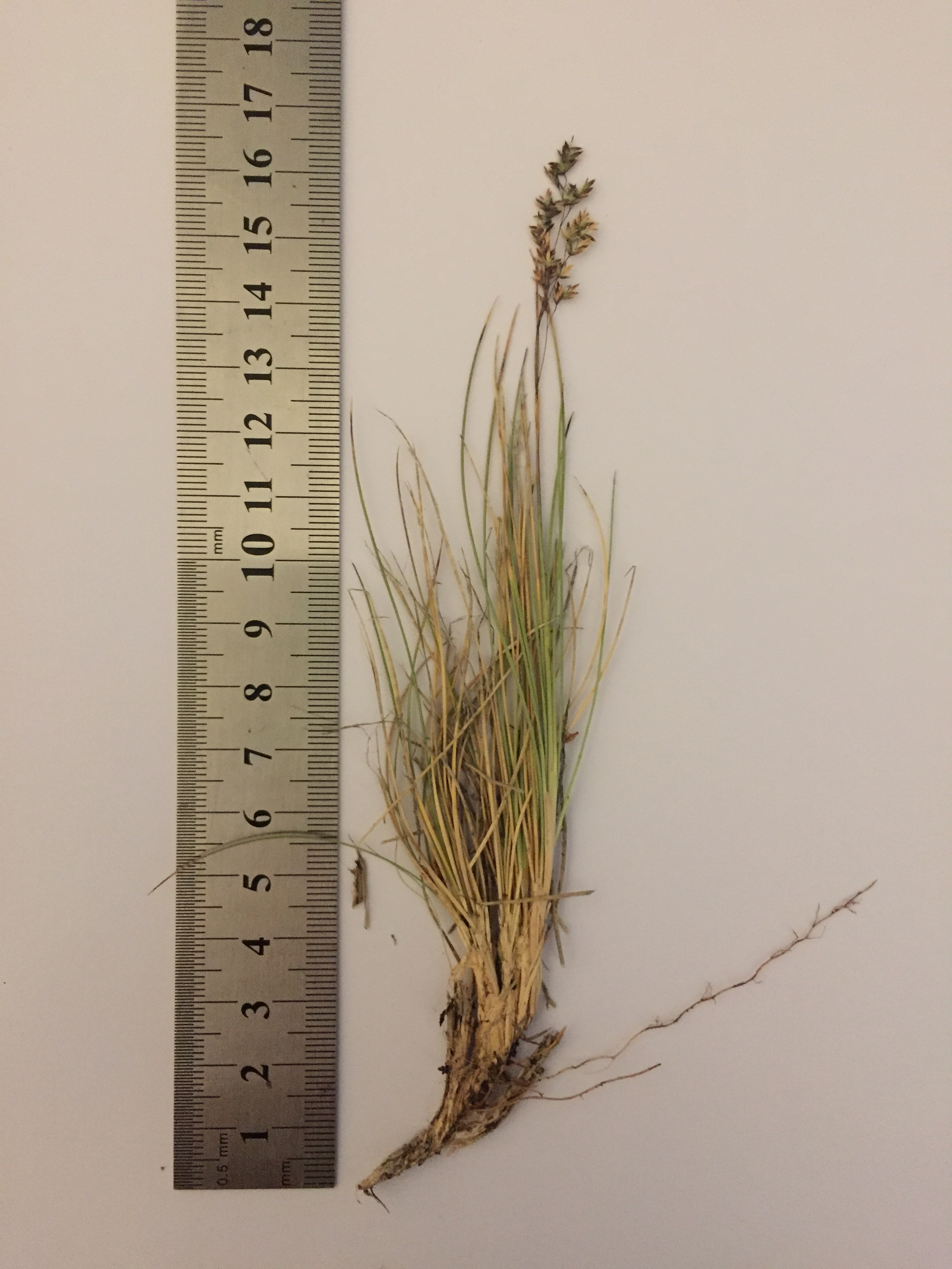 A form of P. gunnii taken from 1200m elevation in central-mid-south Tasmania.